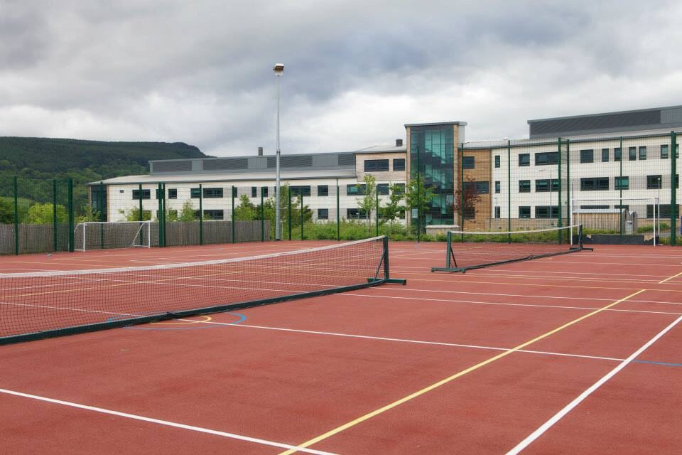 This is a photo of Breadalbane Academy taken from the on-site tennis courts.